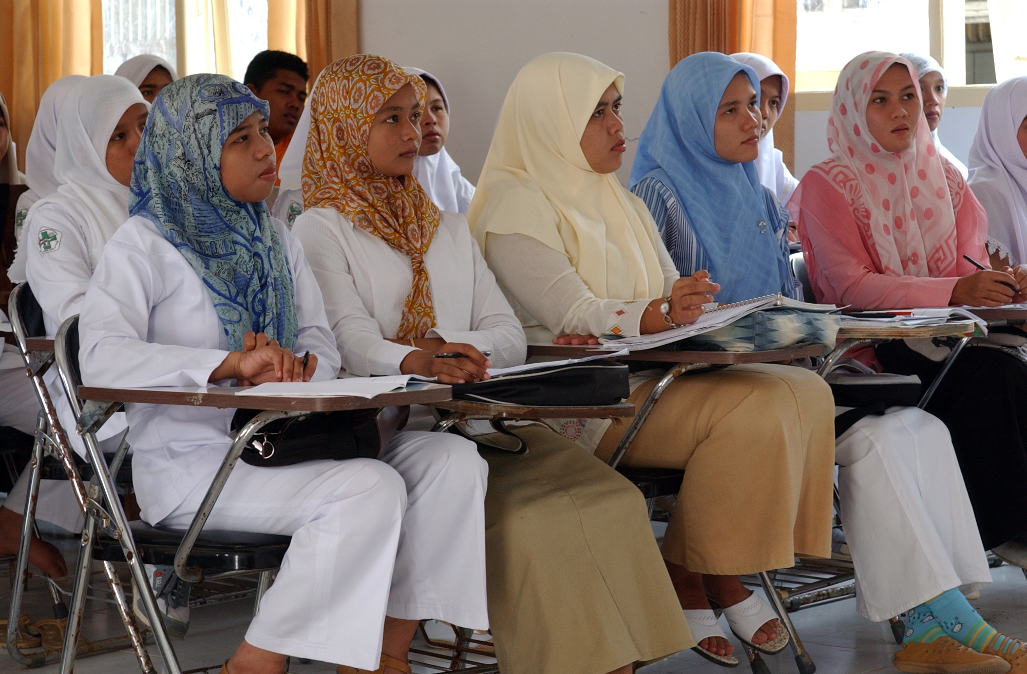 Banda Aceh, Sumatra, Indonesia (Feb. 23 2005) – Indonesian nursing students at the University Hospital in Banda Aceh on the island of Sumatra, Indonesia, listen to a lecture given by U.S. Navy nurses, assigned to the Military Sealift Command (MSC) hospital ship USNS Mercy (T-AH 19), on proper diabetes care and treatment. Mercy is serving as an enabling platform to assist humanitarian operations ashore in ways that host nations and international relief organization find useful. Mercy is currently off the waters of Indonesia in support of Operation Unified Assistance, the humanitarian relief effort to aid the victims of the tsunami that struck Southeast Asia. U.S. Navy photo by Photographer's Mate 2nd Class Timothy Smith (RELEASED)